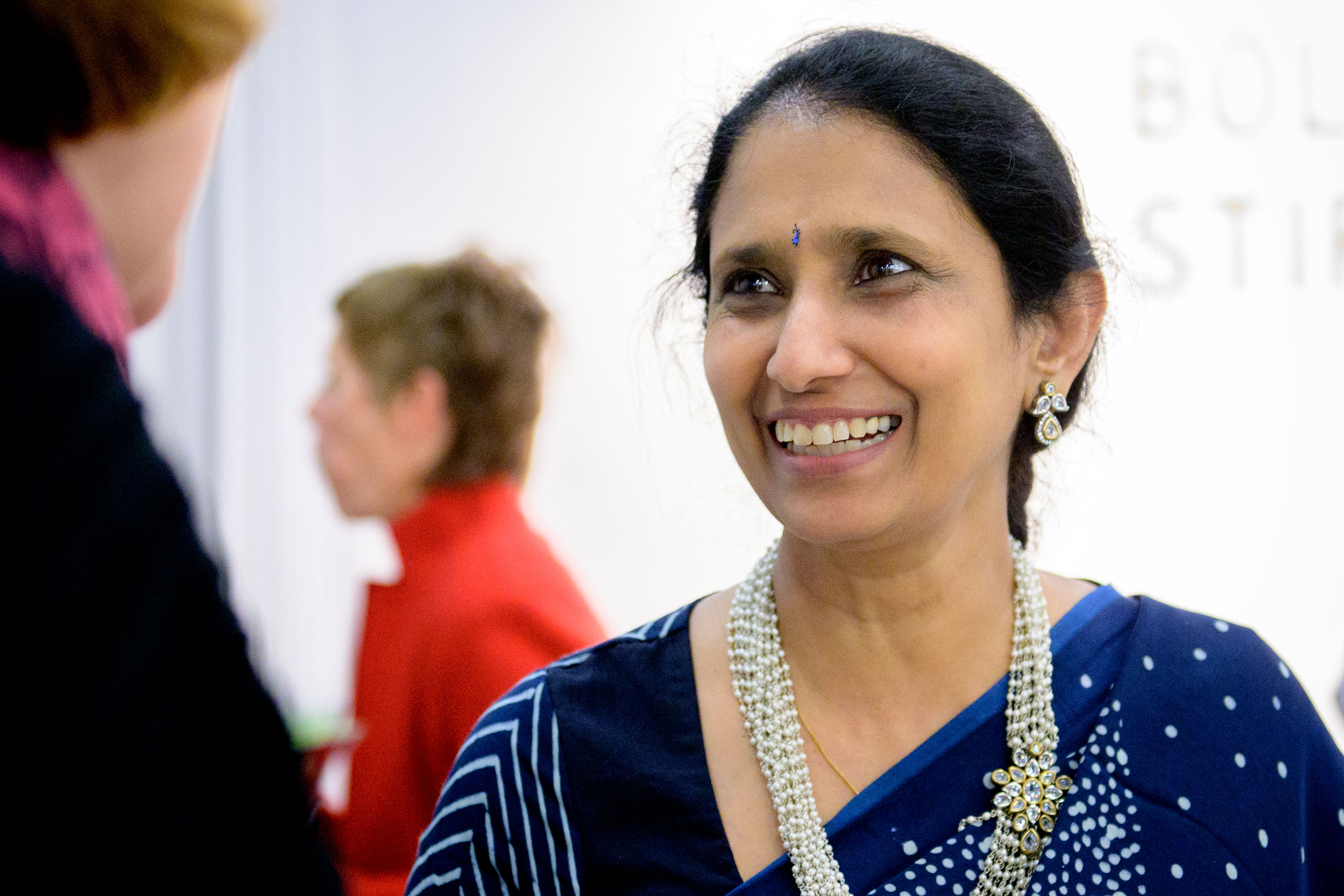 Prasanna Gettu (Kriminologin, Aktivistin, Gründerin von International Foundation for Crime Prevention & Victim Care PCVC) Foto: Stephan Röhl